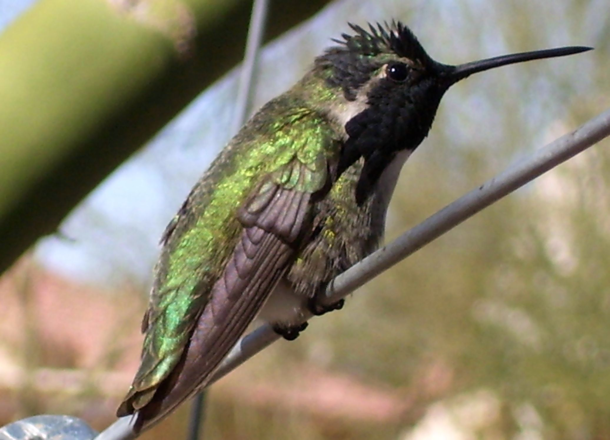 Male Costa's Hummingbird